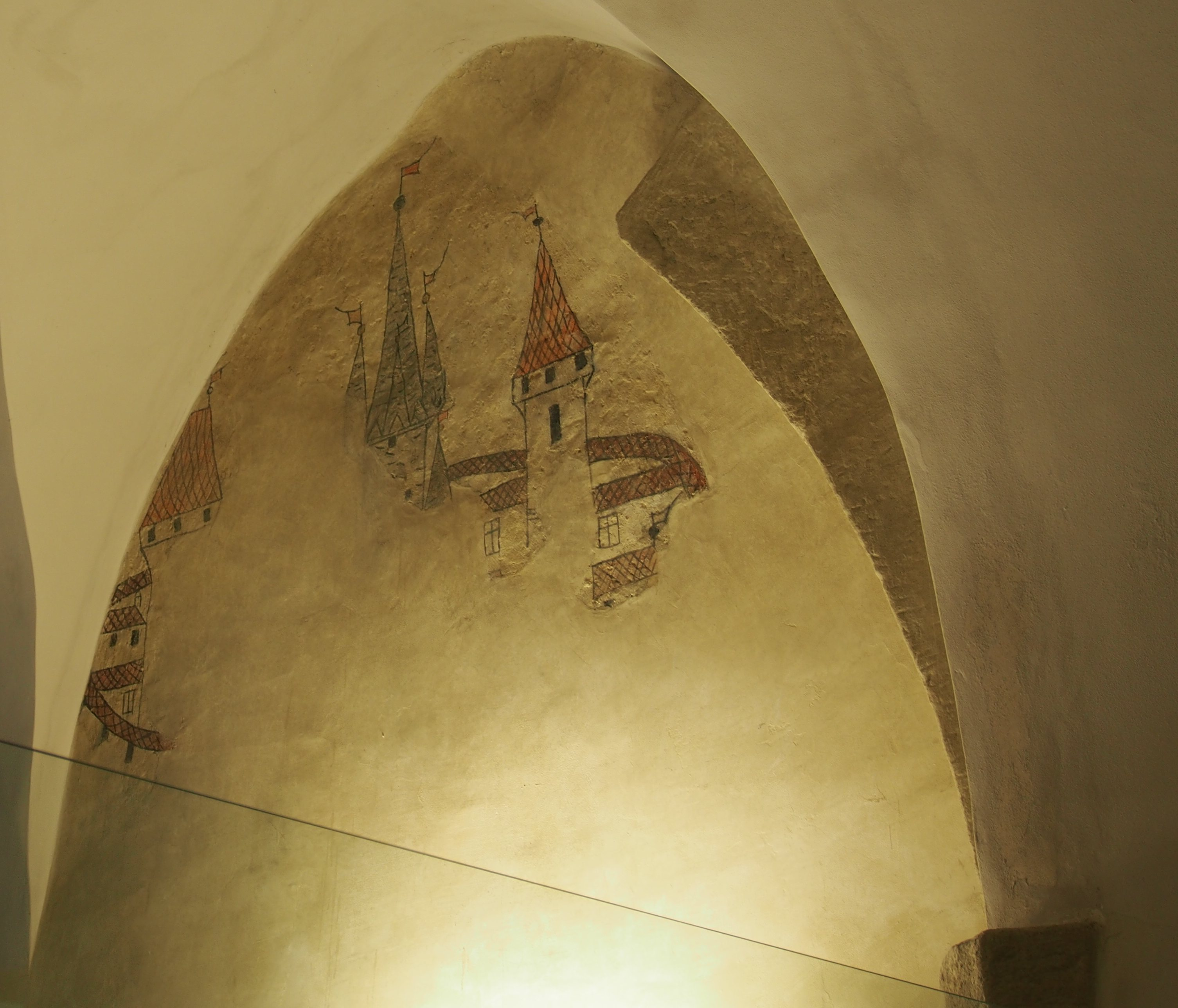 Fresco of towers